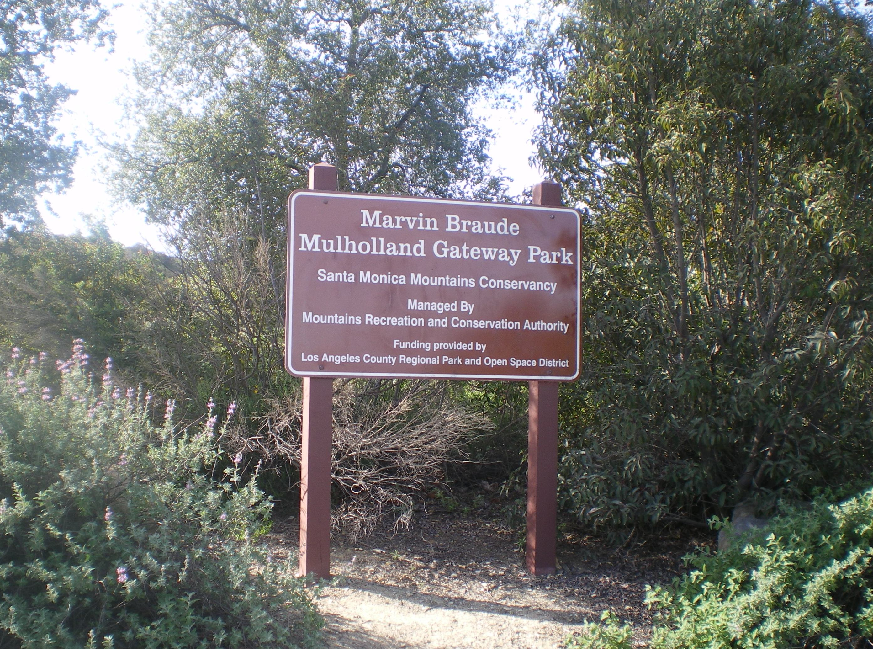 Marvin Braude Mulholland Gateway Park — Reseda Blvd. in Tarzana above the San Fernando Valley. In the Santa Monica Mountains National Recreation Area.